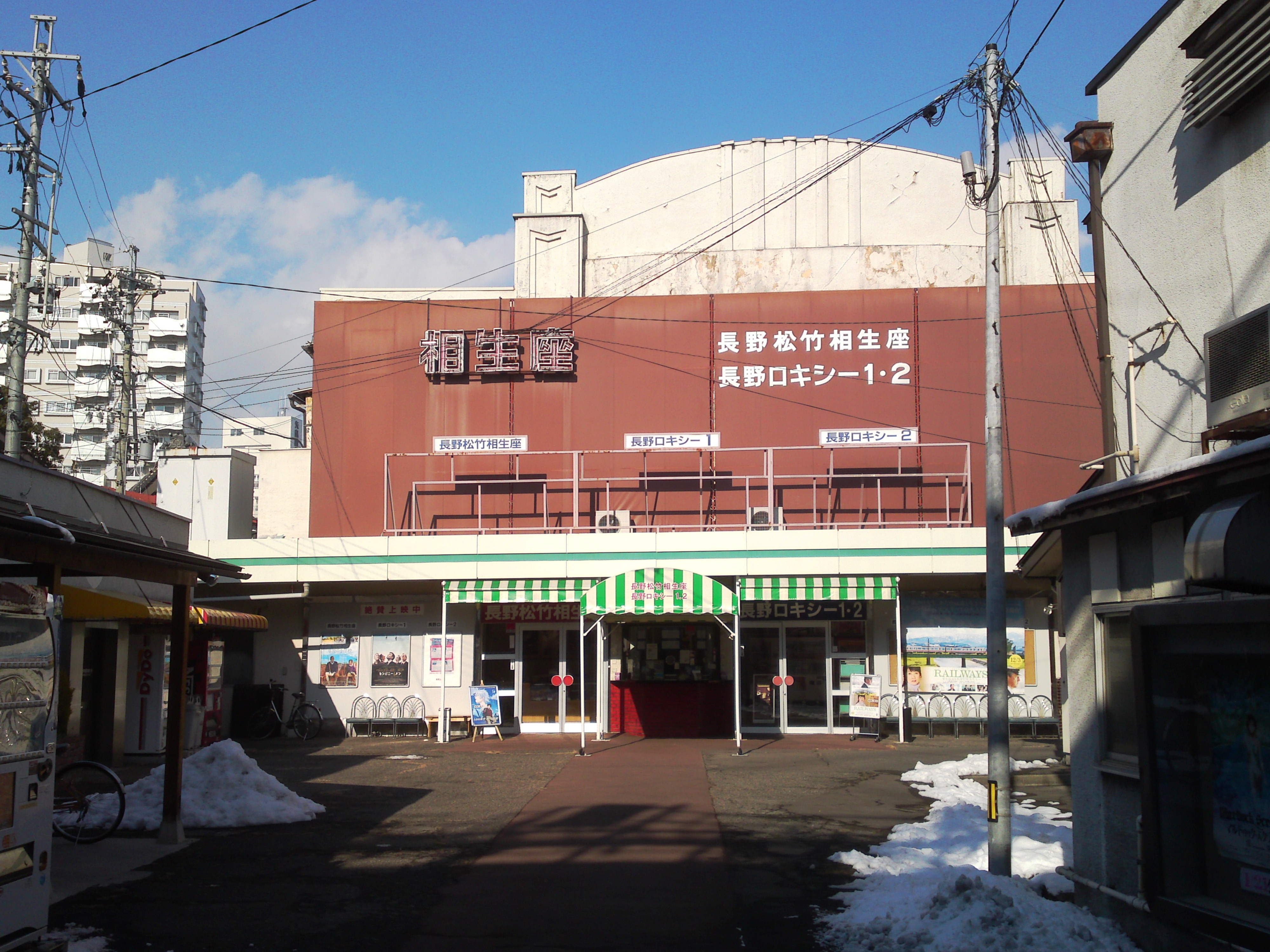 Nagano Shochiku Aioi-za and Nagano Roxy cinemas in Nagano, Japan